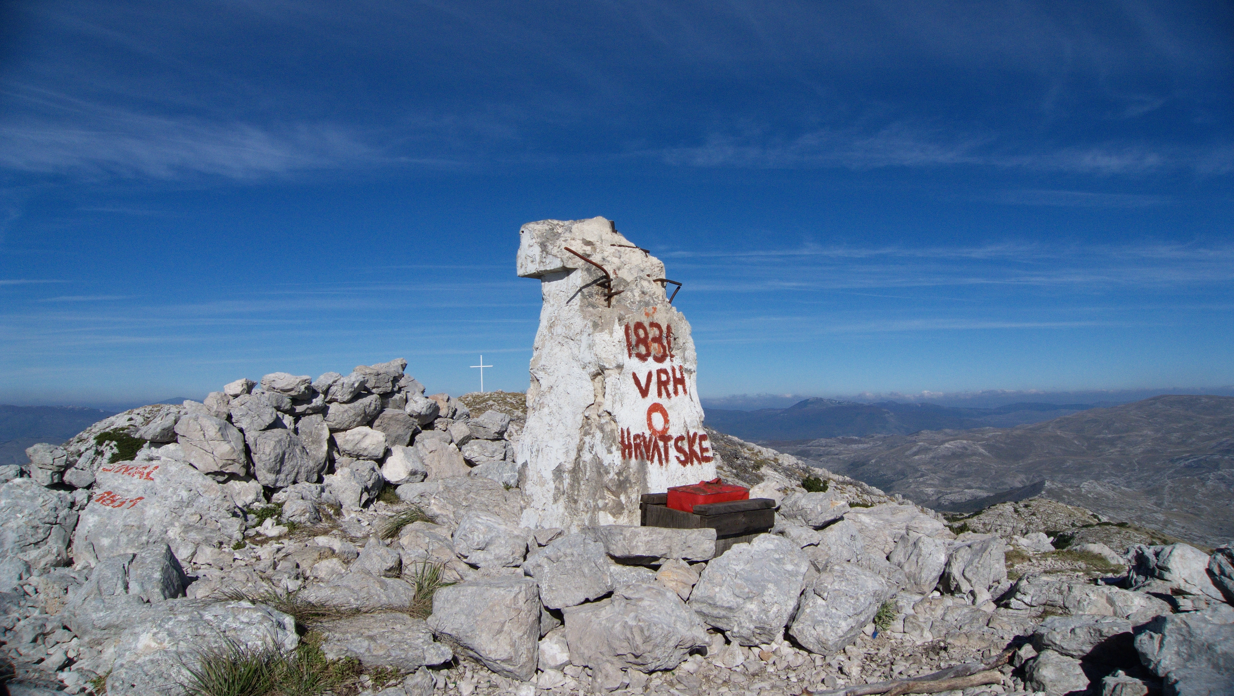 Sinjal, the peak on Dinara, the highest Croatian peak (1831 m).